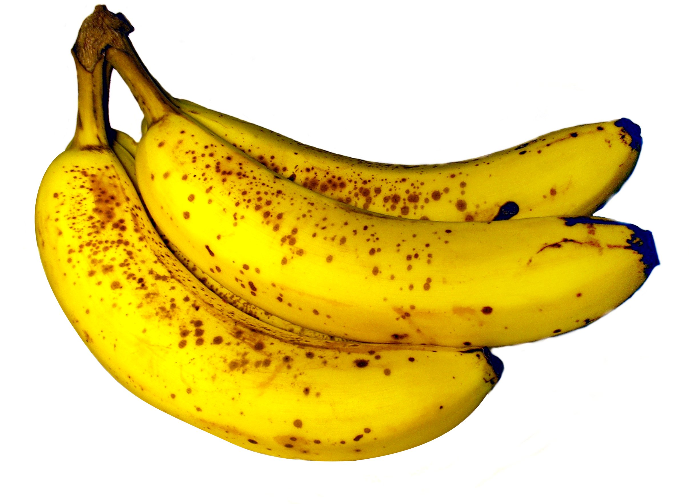 Photo of a market banana